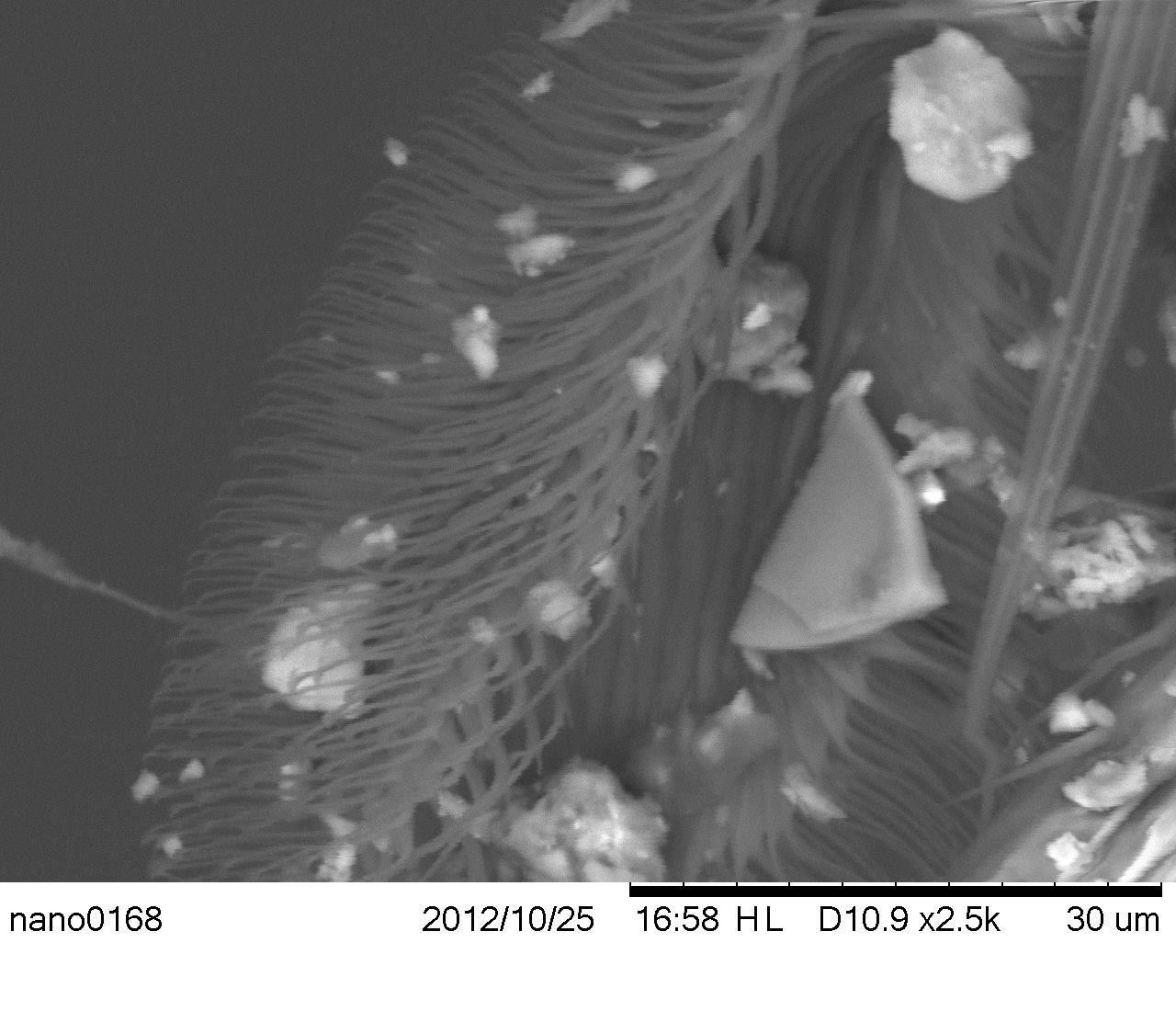 Micrograph of a fly's sticky foot pad